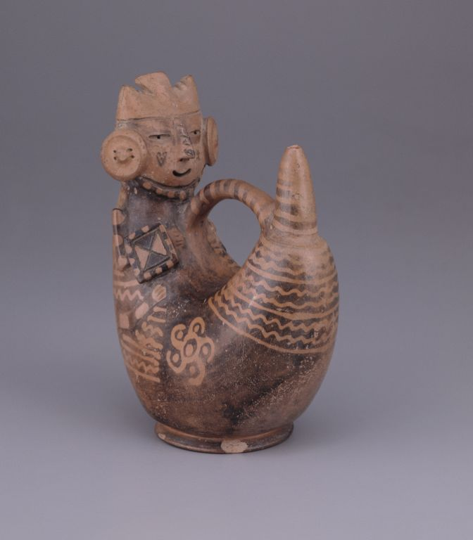 Virú piece – Formative Epoch, North Coast, 1200 B.C. to 1 A.D. Larco Museum Collection.